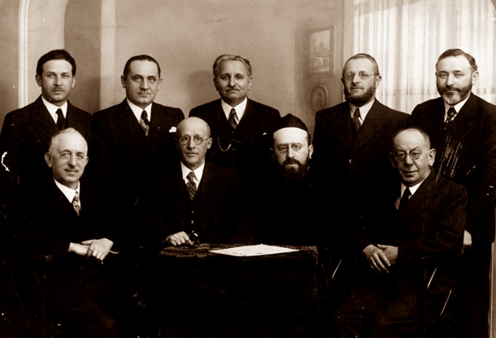 Council of Jewish community in Biala Krakowska (Bielsko-Biala)